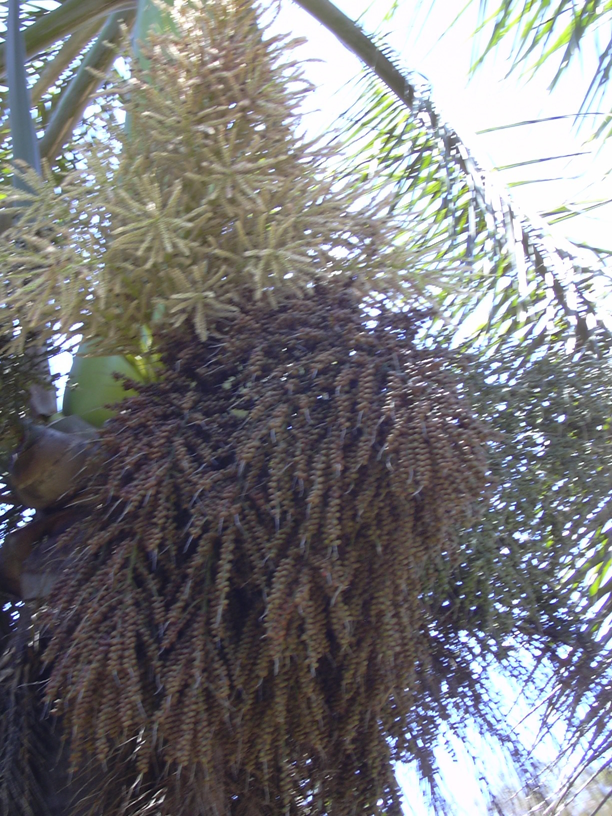 Roystonea regia (fruits). Location: Maui, Hamakuapoko